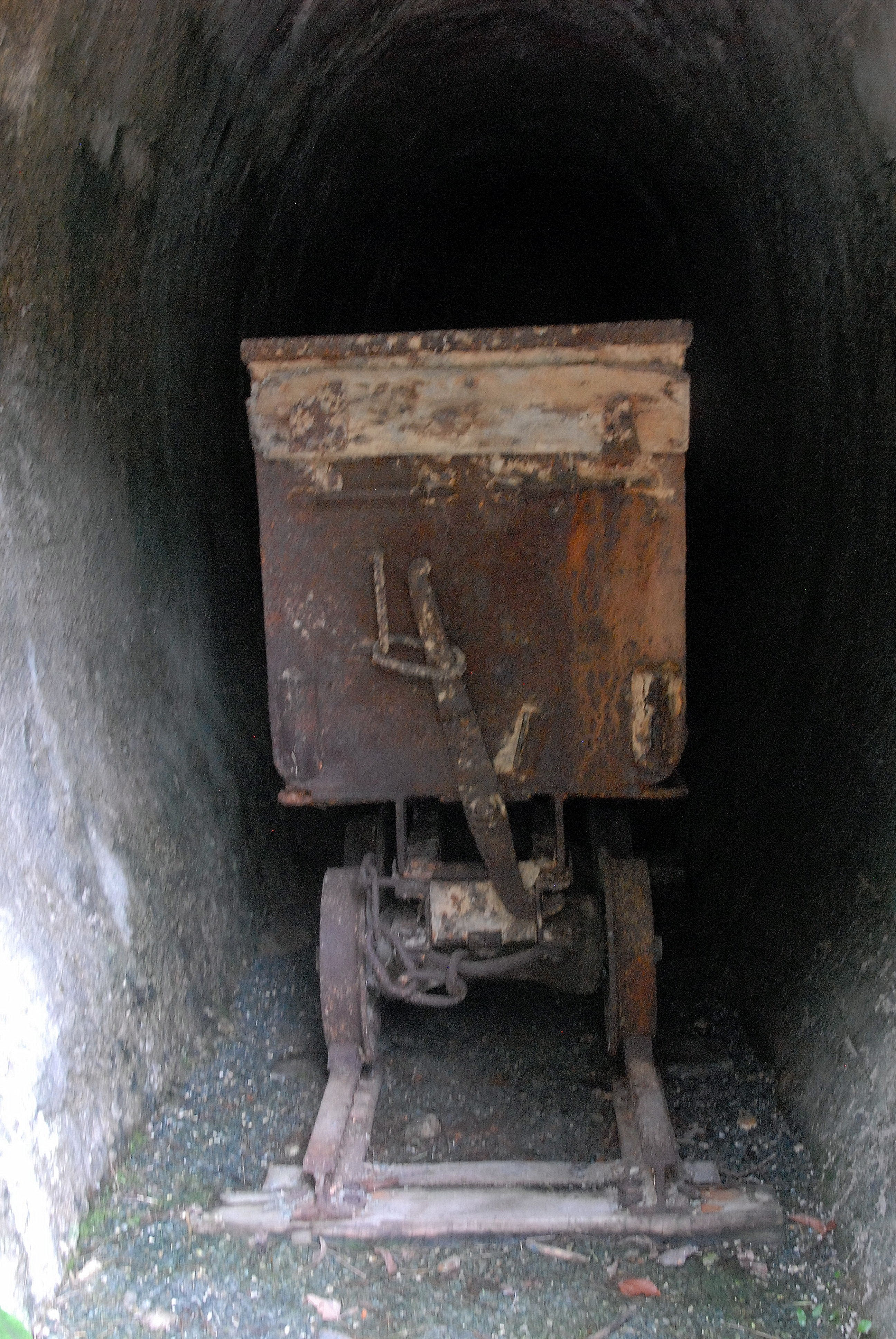 Closed down lead mine gallery with hutch in the village Windisch Bleiberg, municipality Ferlach, district Klagenfurt-Land, Carinthia, Austria